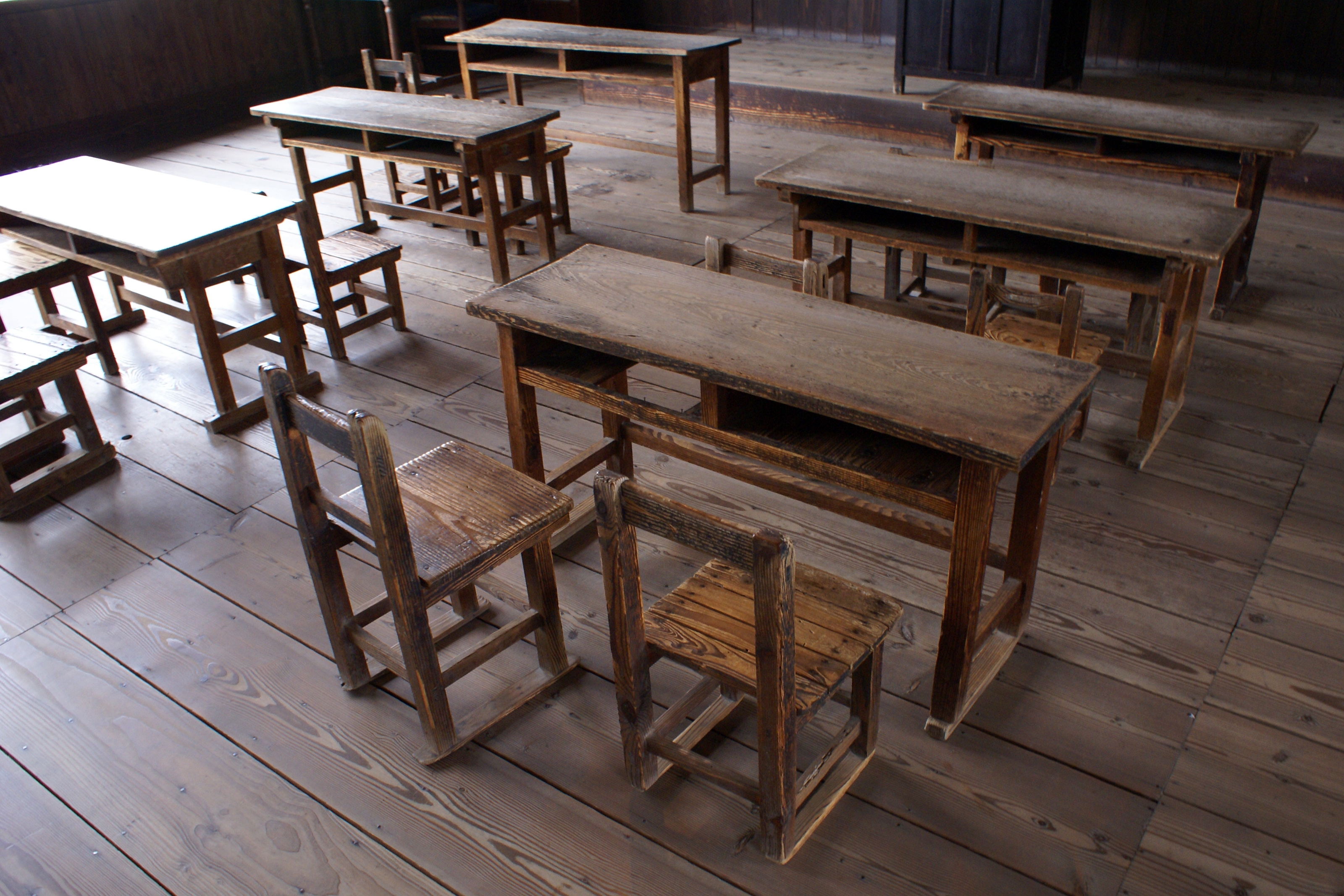 The amusement park of "Twenty-four eyes" in Shodoshima Island Kagawa Prefecture, Japan)